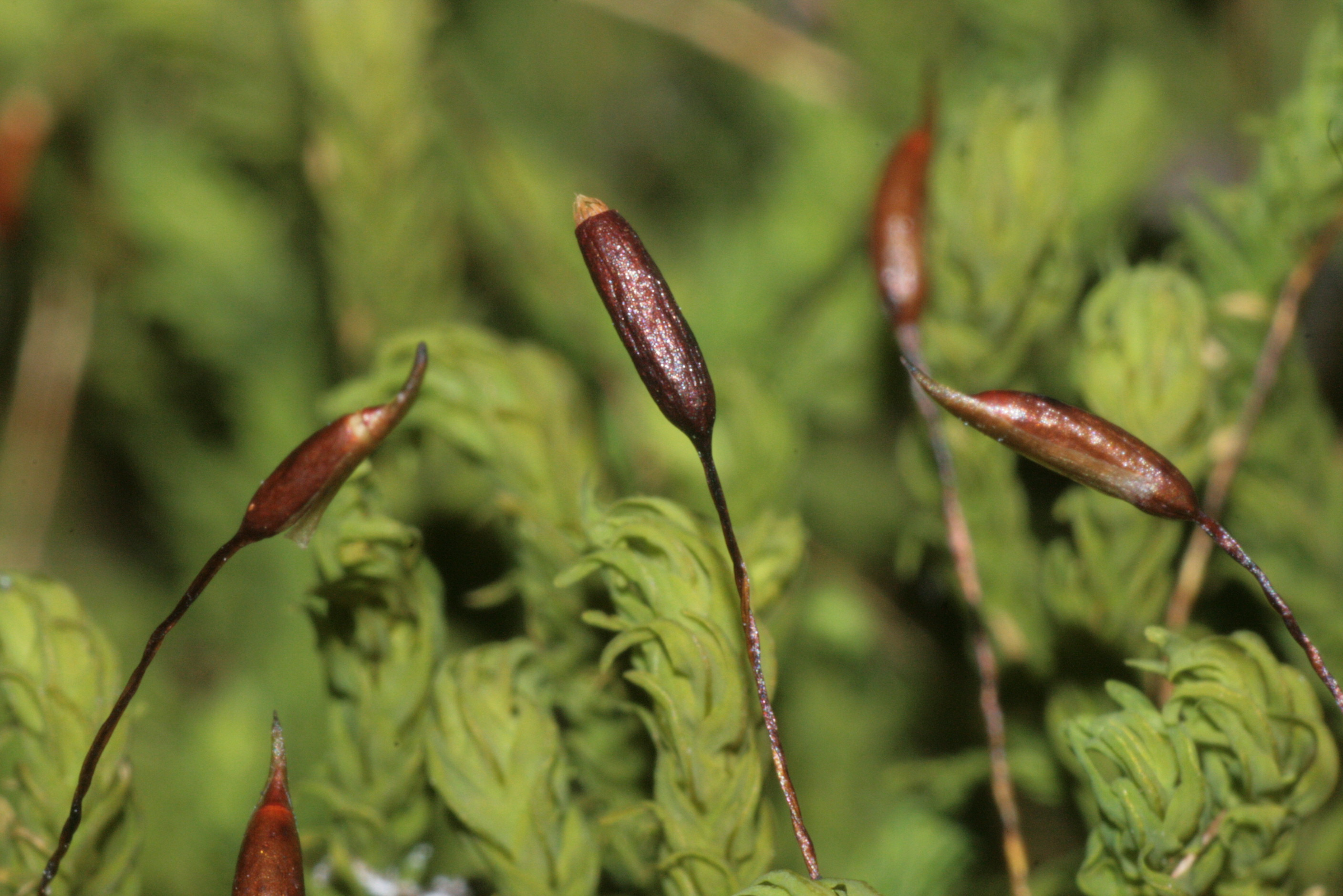 Anomodon viticulosus